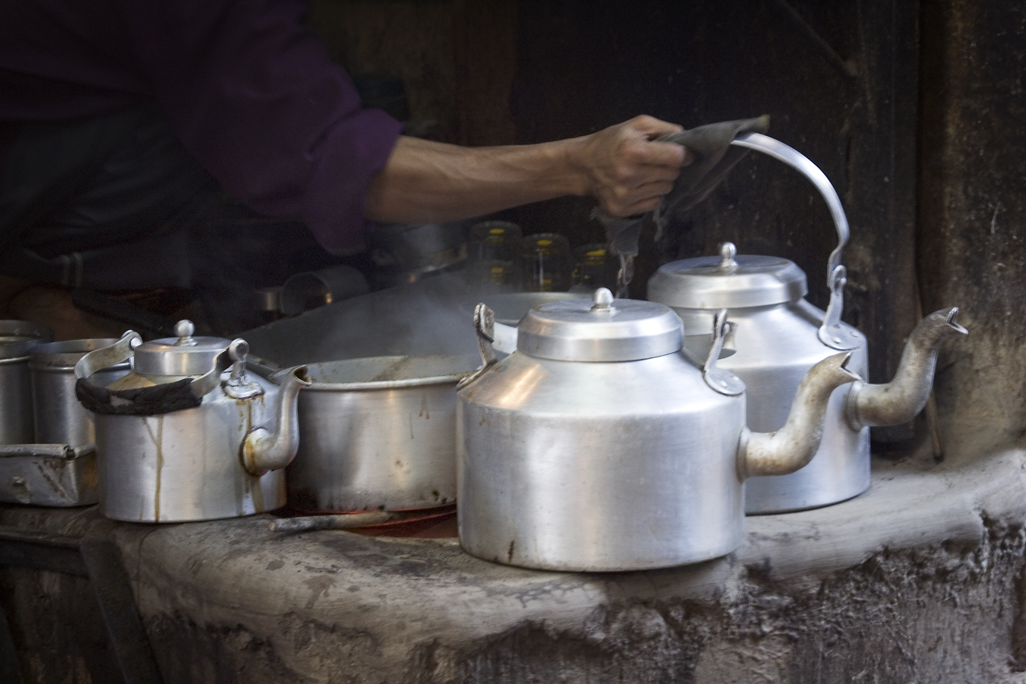 Chai tea kettles on the street Varanasi Benares India